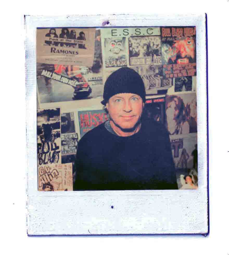 Wade Calhoun, lead vocalist of the now defunct hardcore outfit Willful Neglect. Wilful Neglect worked tirelessly for high quality production values in recording, and was a driving force with the E.S.S.C. in the support of Twin Cities punk bands. An array of vintage poster art from the local and national punk circuit can be seen in the background. Photo circa 2003